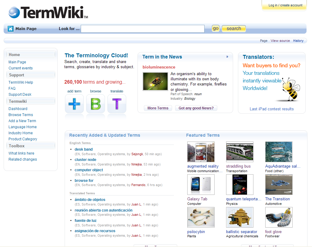 A screenshot of TermWiki's homepage.